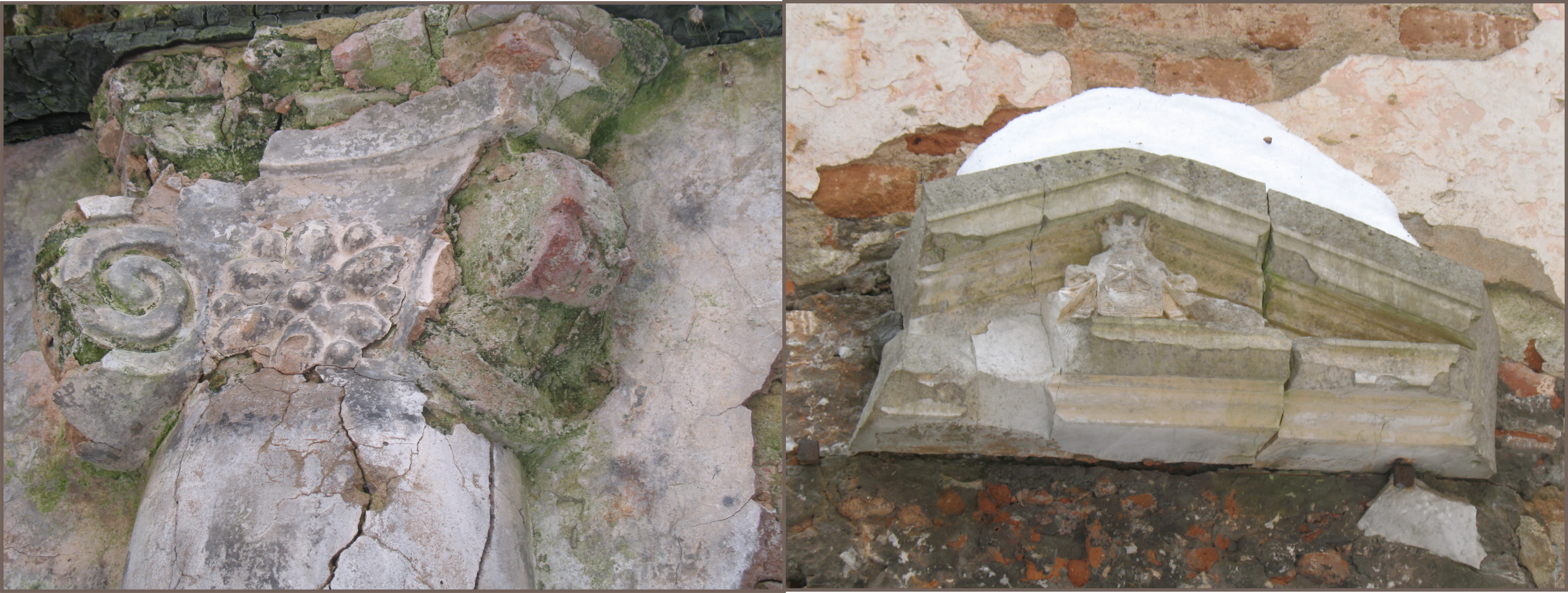 This is an elements of catholic church in village Ravanichi, Belarus.